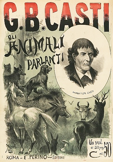 Poster for a 1890 edition of Gli Animali parlanti by Italian poet Giovanni Battista Casti (1724-1803) with a portrait of the author